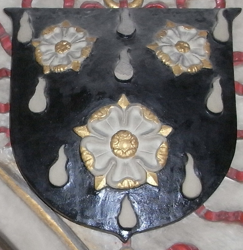 Coat of arms of John Still (c. 1543 – 26 February 1607/8), Bishop of Bath and Wells, from his monument in Wells Cathedral, Somerset, England, on the the east wall of the north transept leading into the Chapter House. The blazon of the arms is as follows: Sable gouttée d'eau argent, three roses of the last seeded or barbed vert. These arms were granted by Sir William Dethick, Garter Principal King of Arms, on 10 April 1593 on Still's elevation to the bishopric: Arthur J[ohn] Jewers (1892) Wells Cathedral: Its Monumental Inscriptions and Heraldry: Together with the Heraldry of the Palace, Deanery, and Vicar's Close: With Annotations from Wills, Registers, etc., and Illustrations of Arms, London: Mitchell and Hughes, p. 147 OCLC: 6160641. The roses in the arms have not been painted vert (green) but Or (gold). At the time when Jewers wrote his book, he noted that the monument had been newly painted: see p. 146.